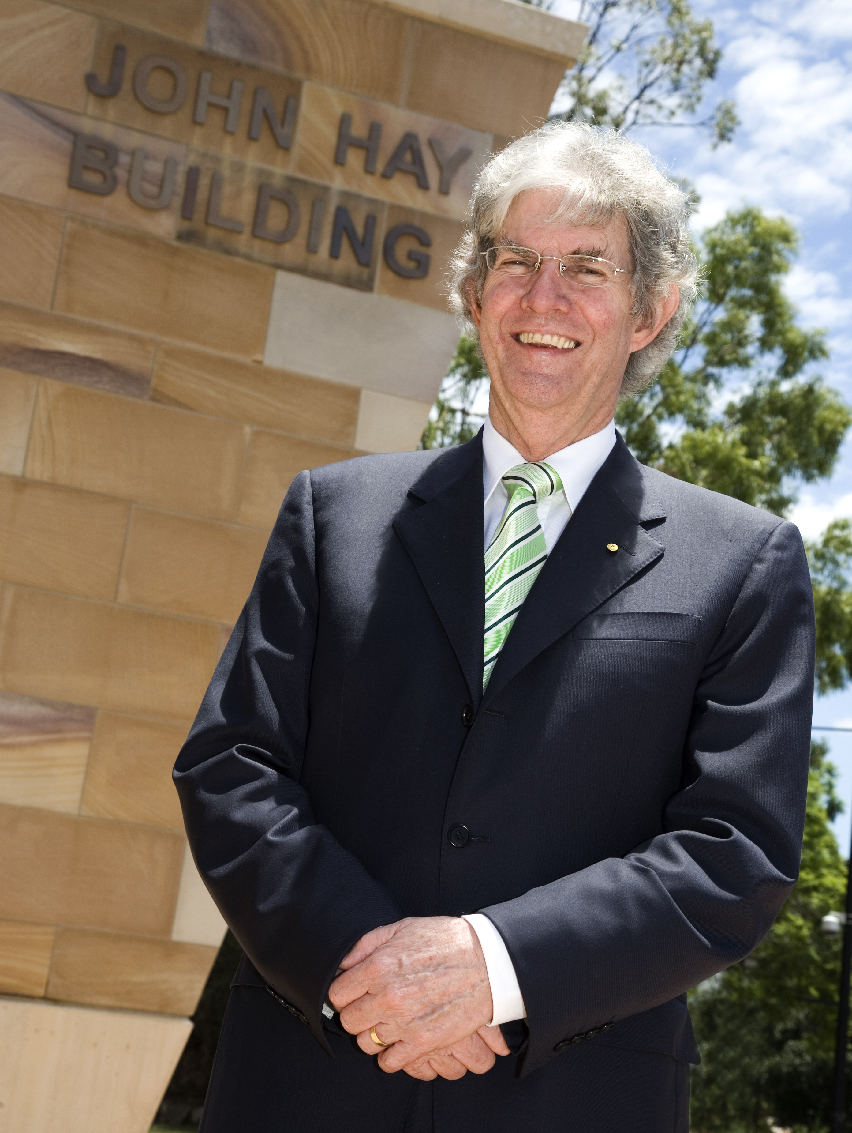 Emeritus Professor John Hay AC, former University of Queensland Vice-Chancellor